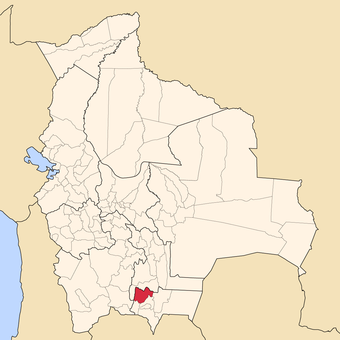 Map of Bolivia showing Eustaquio Méndez province, Tarija